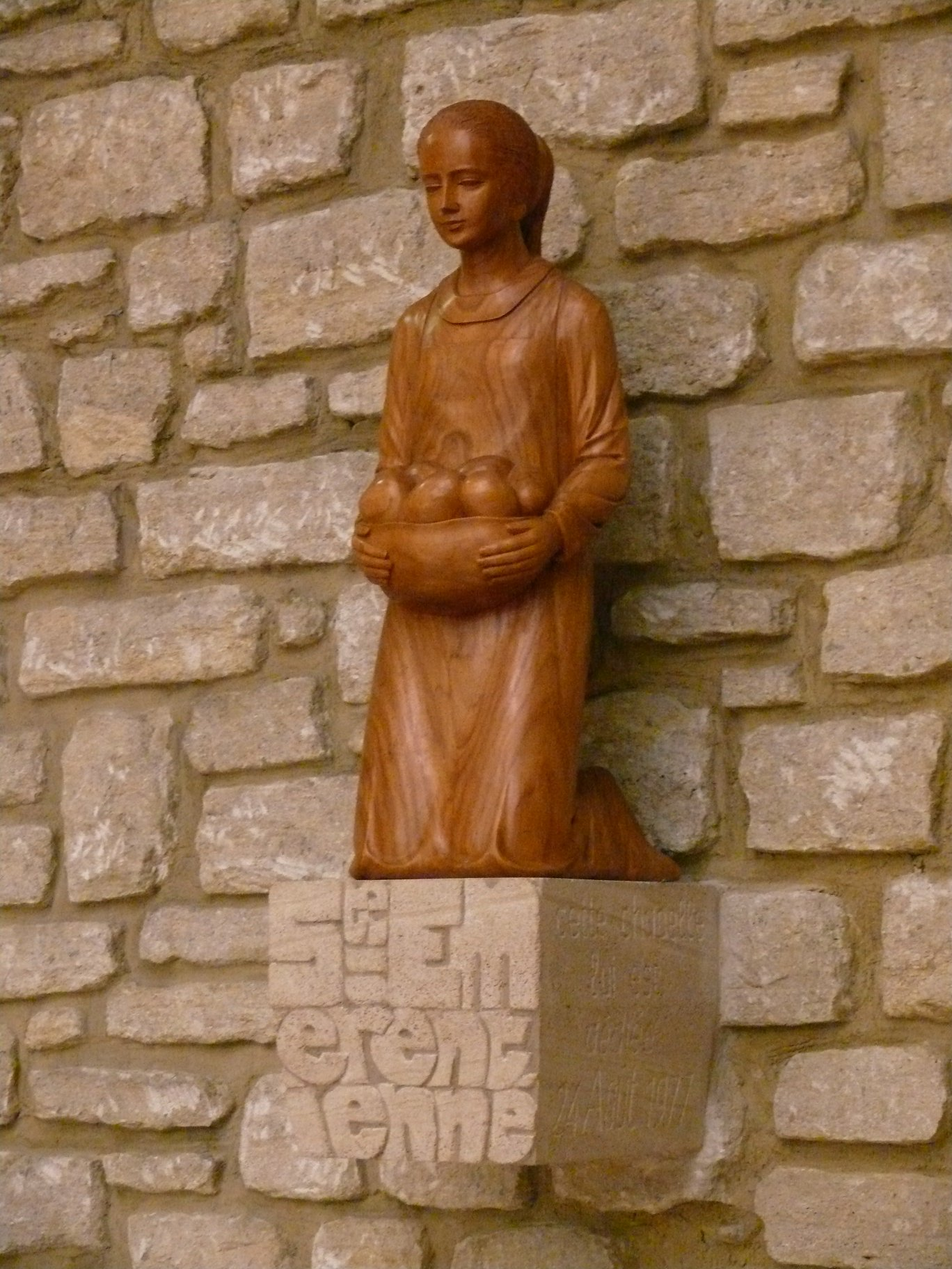 Saint-Emerentienne's chapel in Venasque (Vaucluse, Provence-Alpes-Côte d'Azur, France).